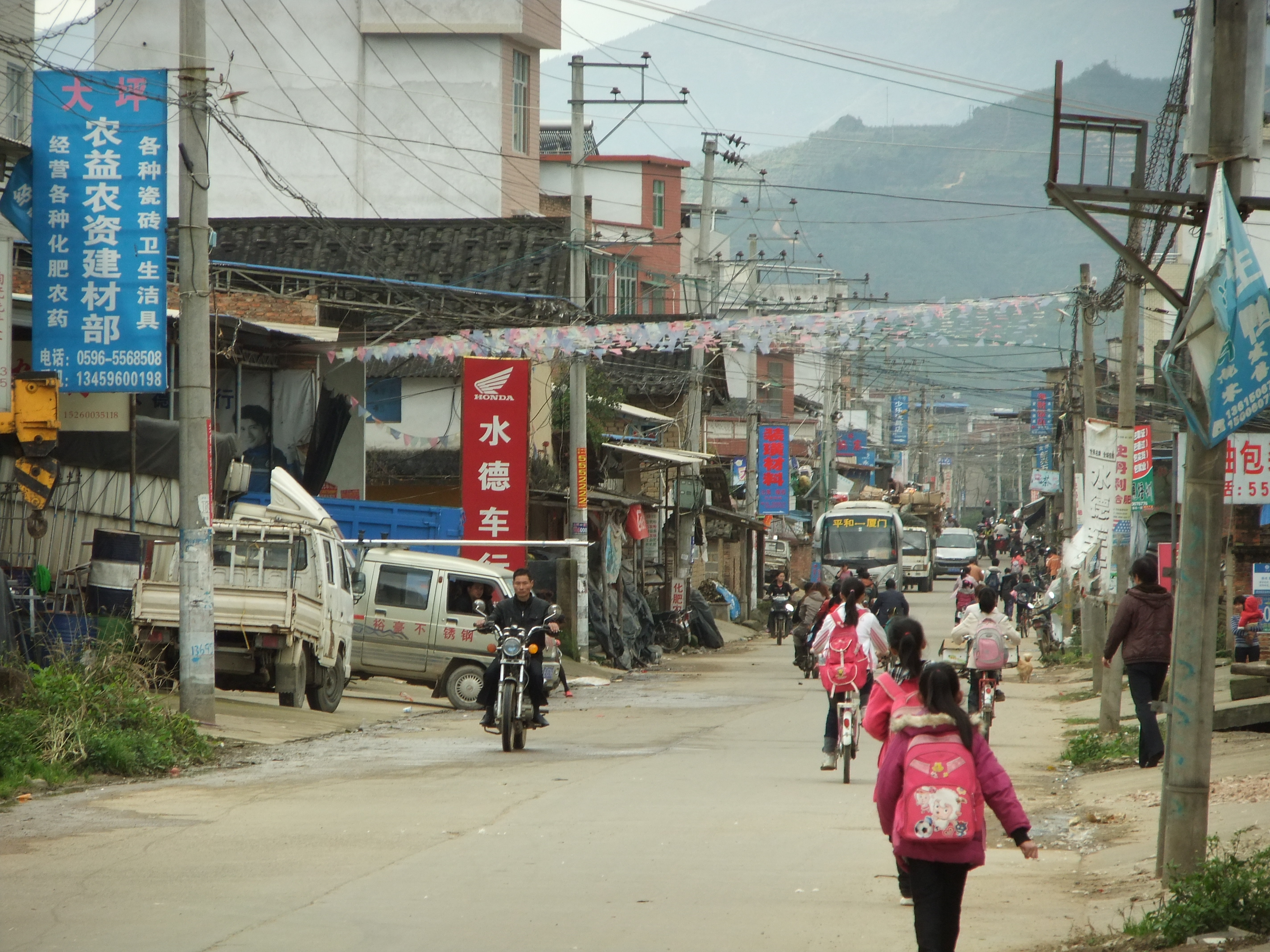 Schoolchildren on the main street of Xi'an Village or Jianshe Village (2-3 km north of Xiazhai Town.